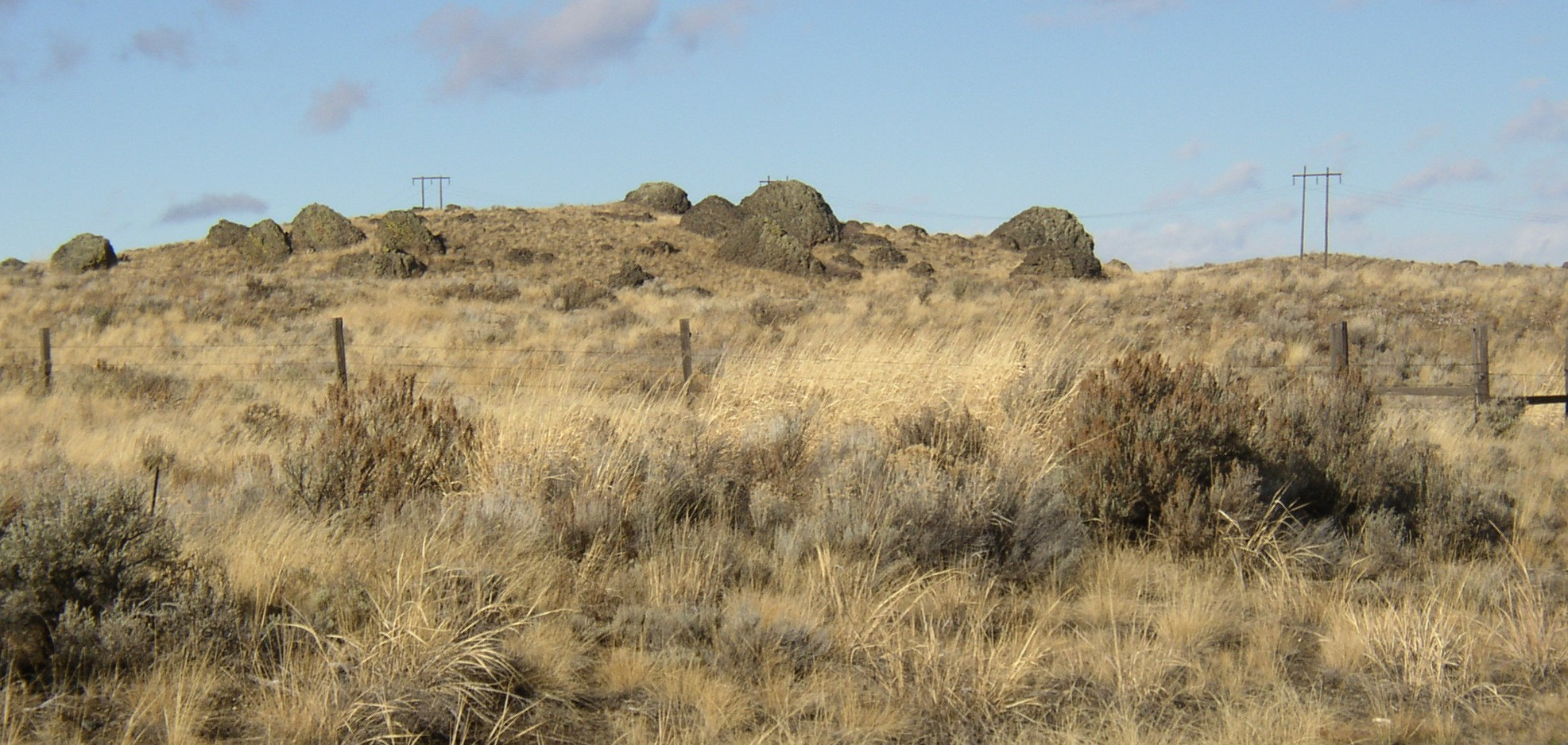 Glacial drift at the terminus of the Okanagon Lobe of the Cordilleran Glacier on the Waterville Plateau of Washington, USA. Photo taken by uploader in November 2006. All rights released. Williamborg 19:56, 12 November 2006 (UTC)